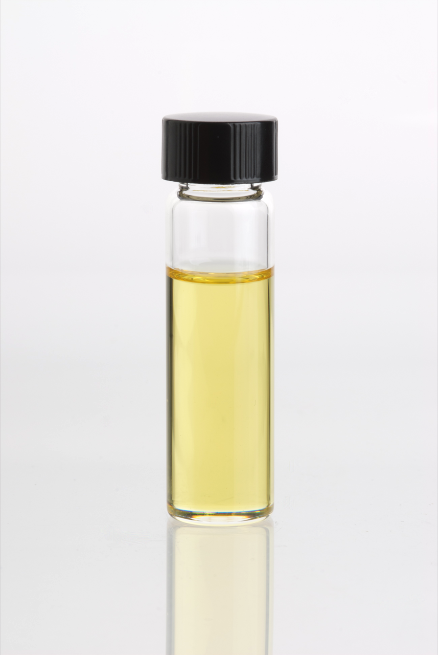 Glass vial containing Ledum Essential Oil